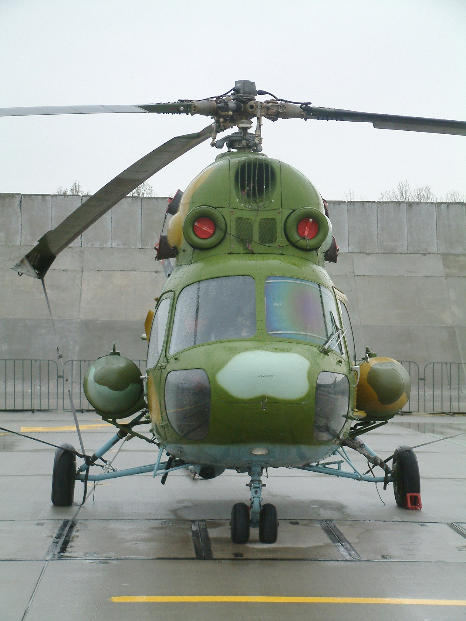 Mi-2 #7837 of Polish Air Forces, 31st. Air Base Poznań-Krzesiny